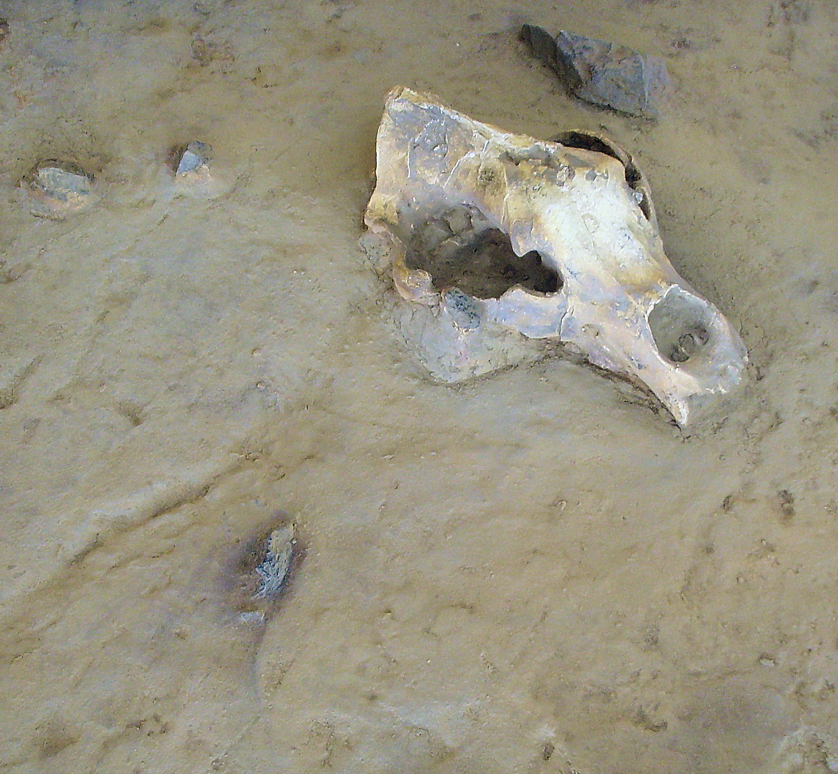 Musée de Préhistoire, Tautavel (Perpignan-region, France): Cave bear (Ursus deningeri) from Arago cave, archaeological context of finds as displayed in the Musée de Préhistoire